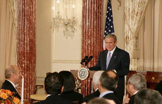 President George W. Bush addresses his remarks at the Secretary of State’s Dinner Monday evening, Nov. 26, 2007 at the State Department in Washington, D.C., welcoming the participants attending the 2007 Mideast peace conference. (White House photo by Chris Greenberg)